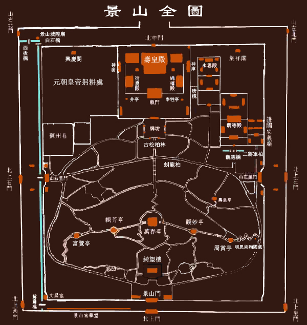 A map of Jingshan garden Park — in Beijing.